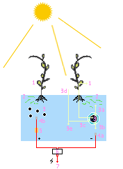 A schematic of a plant microbial fuel cell. The schematic was based on the images at , , and . Unlike most microbial fuel cells, Plant microbial fuel cells allow the generation of electricity from living plant matter. 1= leaves take up CO2, and release O2 2= plant roots generate rhizodeposits (C3H2O6) 3= microorganisms take up rhizodeposits, and generate 3a, 3b, 3c 3a= CO2 3b= electrons 3c= H 3d= O2 3e= H2O 4a= cathode material (graphite granules + graphite felt) connected to wire 4b= anode material (graphite felt) connected to wire 5= cation exchange membrane; connects to 6 via wire 6= energy store (ie electrochemical battery, ...) 7= electricity See File:Plant Microbial Fuel Cell setup.JPG for a more detailed schematic.